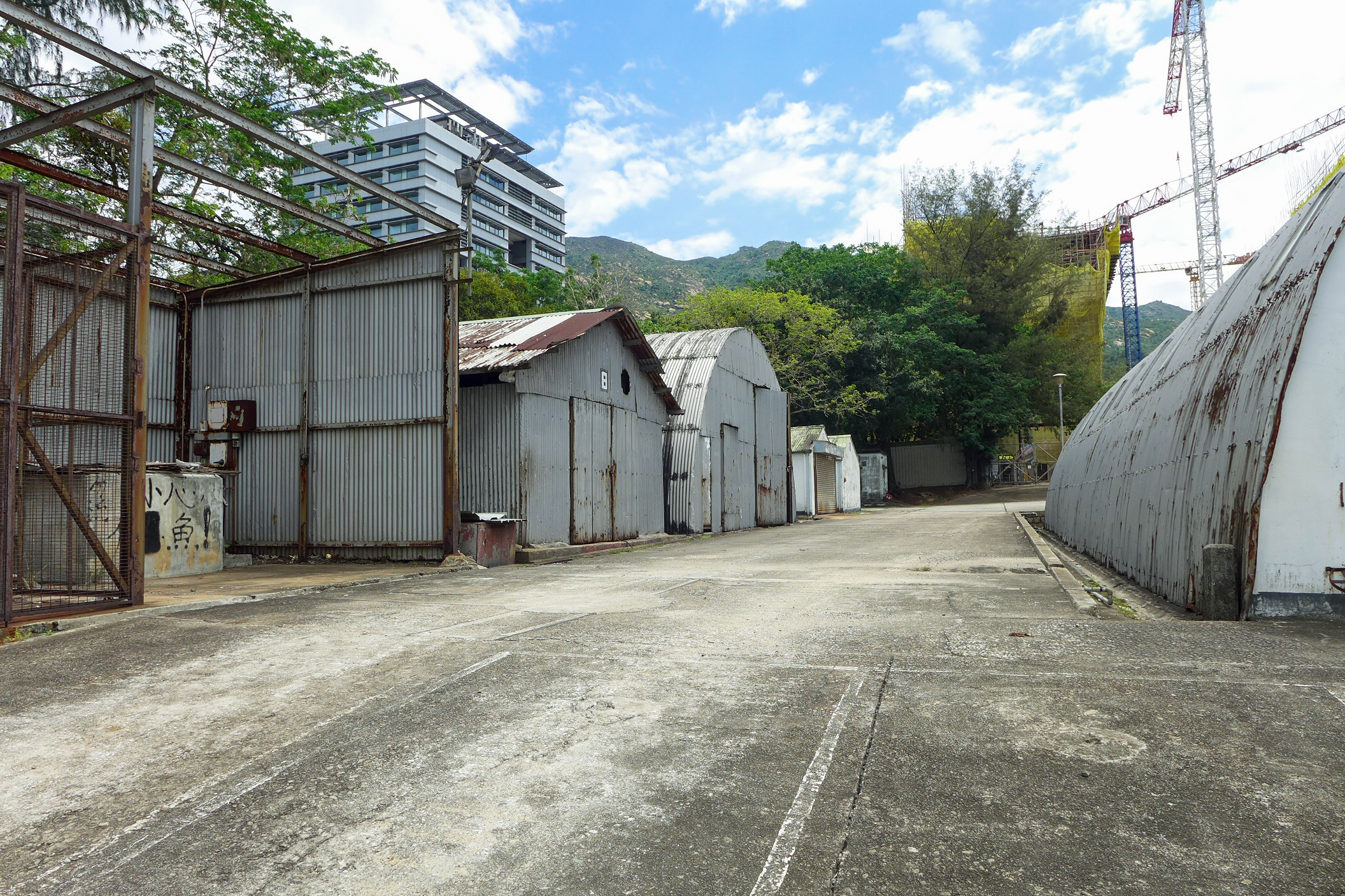 Gordon Hard Camp